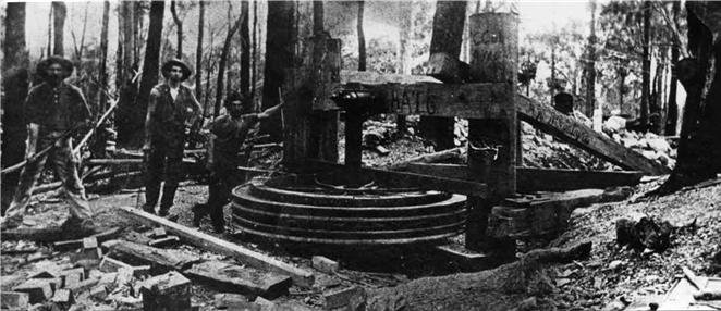 British Australian Tramway, Woolgoolga: Horizontal bull wheel at the top of the gravity operated incline of BAT Co's tramway near Woolgoolga, 1908 (Neal Yates collection)